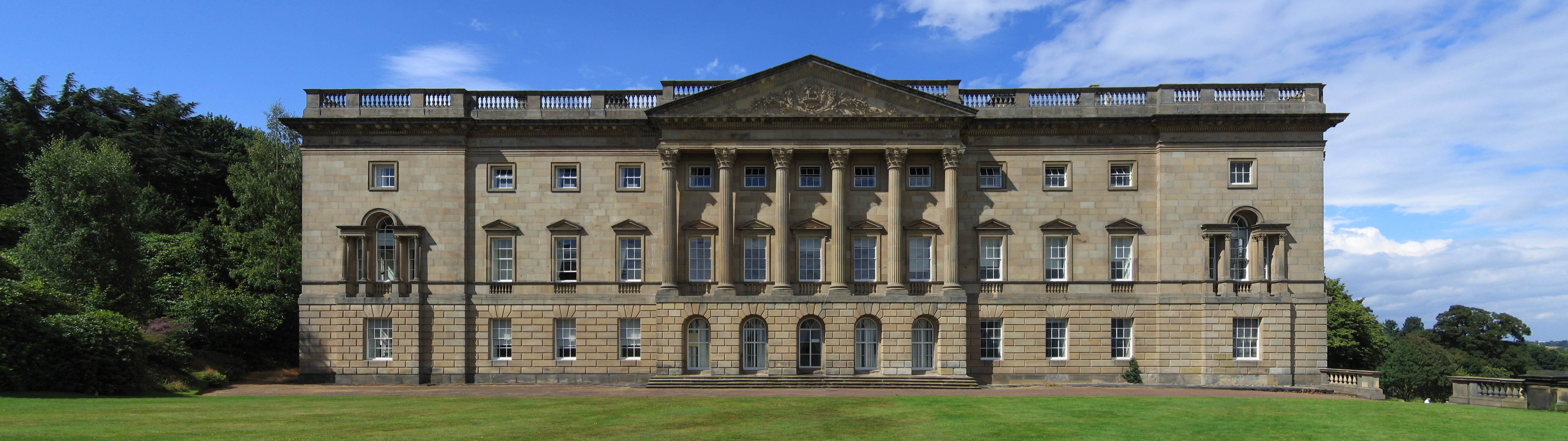 South east facade of Wentworth Castle. Panoramic image created from four own photos.